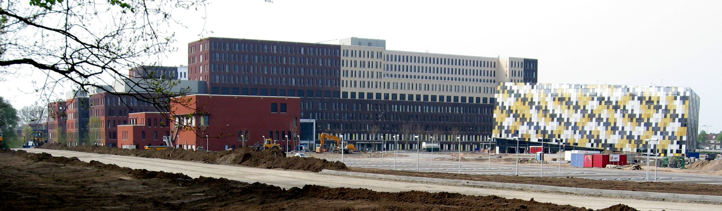 Jeroen Bosch Hospital with visitors' parking on the right. Photo was taken before the official opening.